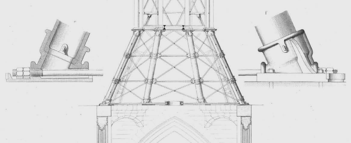 Cologne Cathedral, Crossing Tower, cutaway drawing of base with cast iron shoes, droawing by Richard Voigtel, 1860